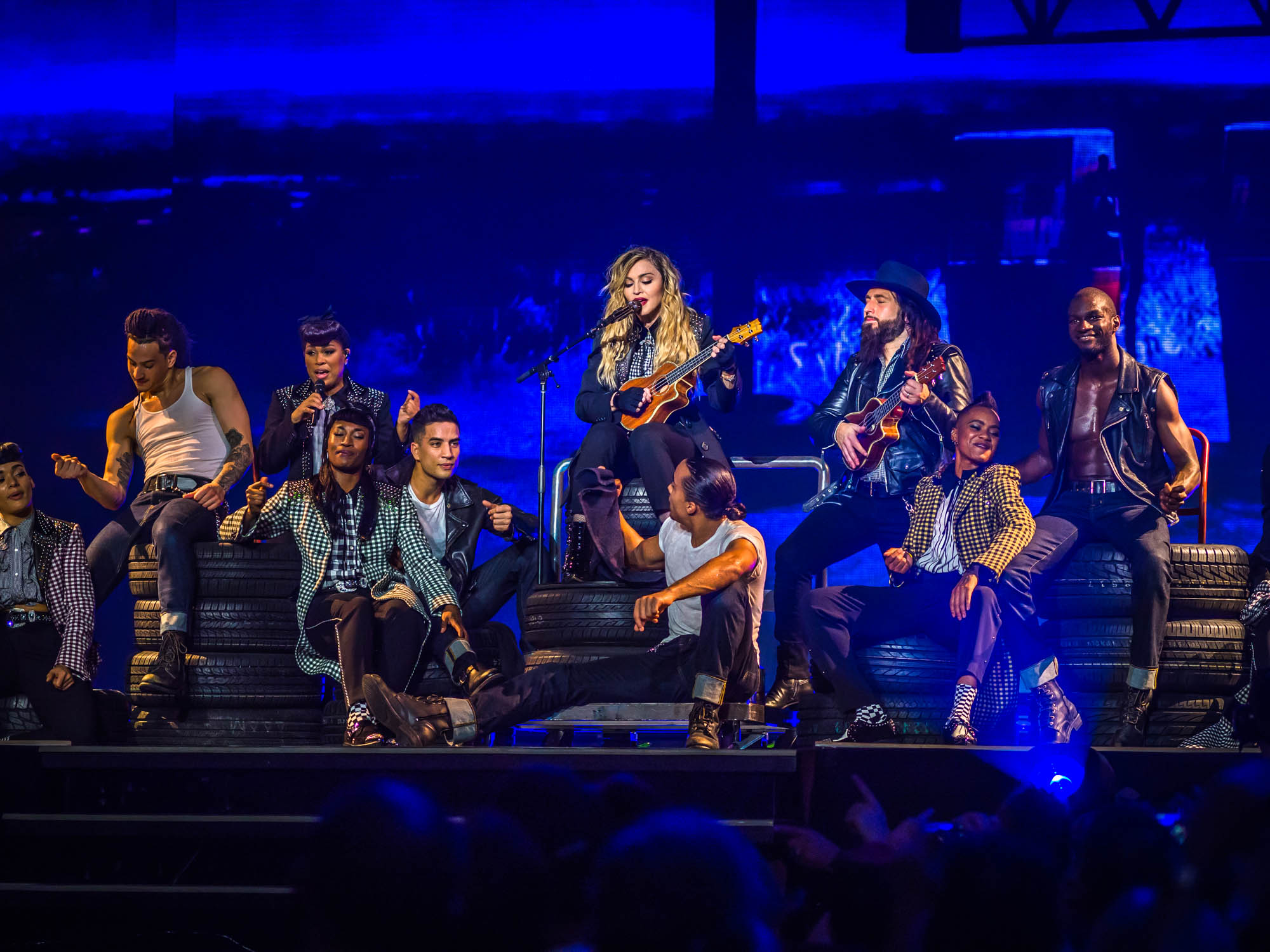 Rebel Heart Tour